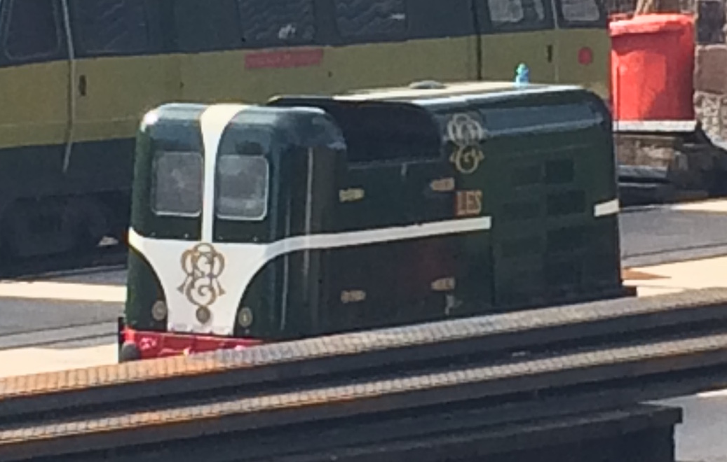 Locomotive ICL 10 "Les" at the Ravenglass and Eskdale Railway, Cumbria.